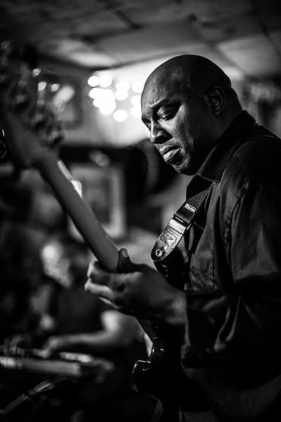 Charnett Moffet playing live at Bar 55 in New York. Photo by Adrien H. Tillmann